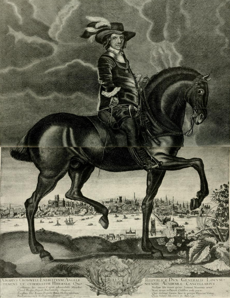 Oliver Cromwell. Engraved by François Mazot